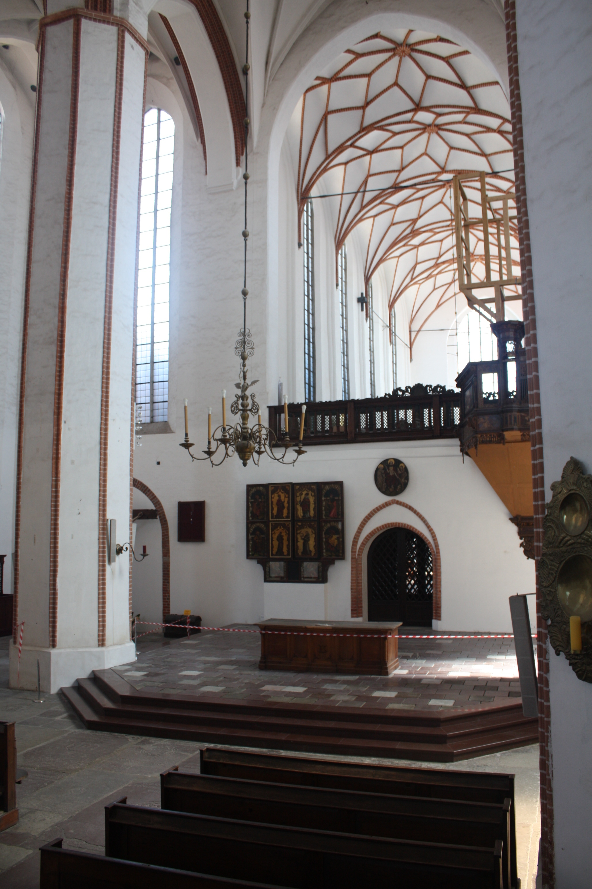 Gdańsk, Church of Saint Trinity